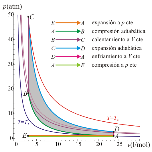 Diagram of an ideal Otto cycle (in Spanish) using exact values for a typical 4 stroke engine and an ideal gas